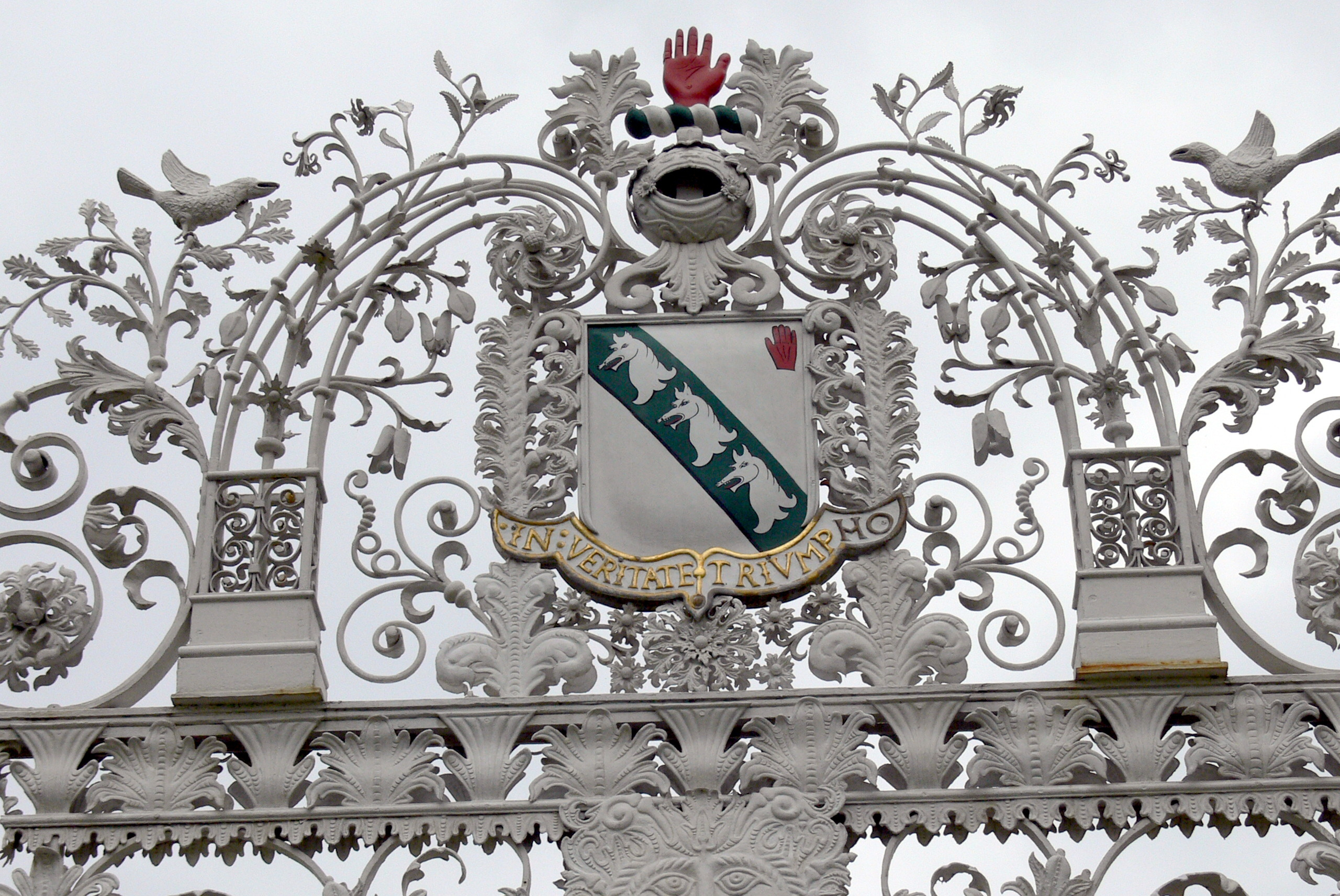 Chirk castle ( Wales ). Castle gate ( 1721 ): Coats of arms of the Myddleton family.